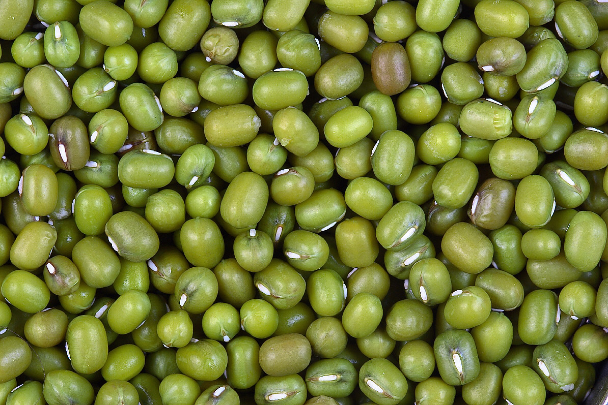 A close up picture of green gram, (mung bean, Vigna radiata)